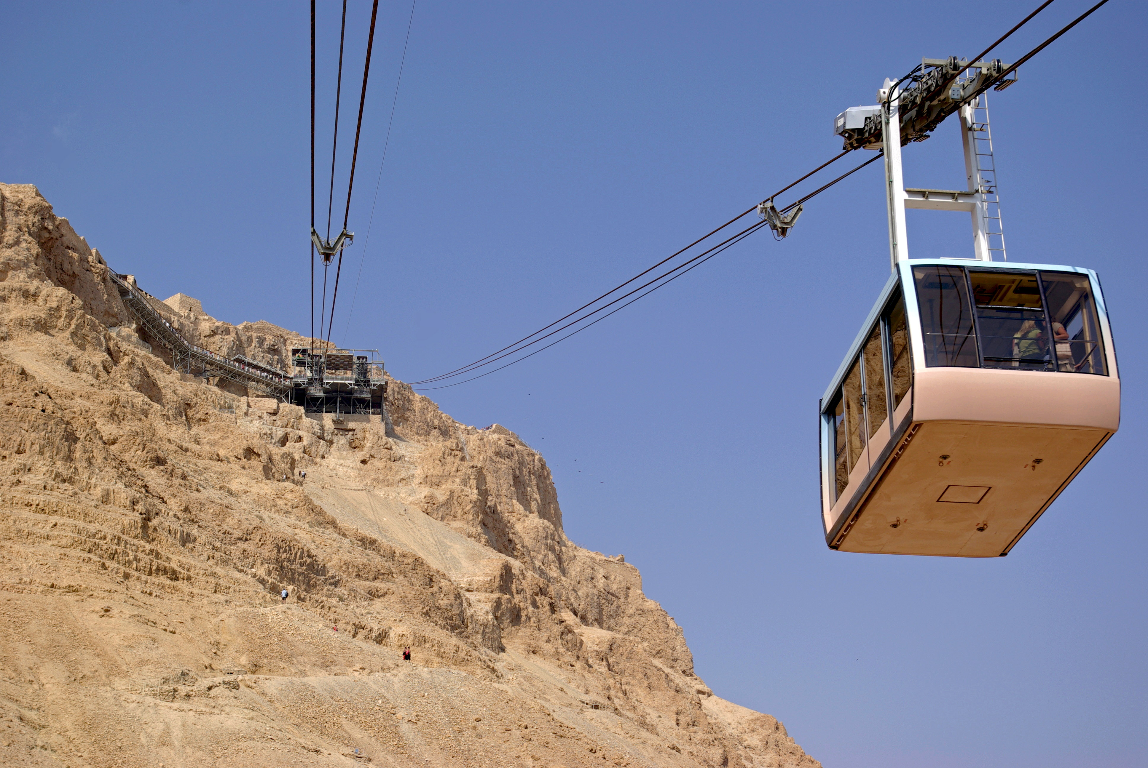 Israel. Aereal Ropeway Masada